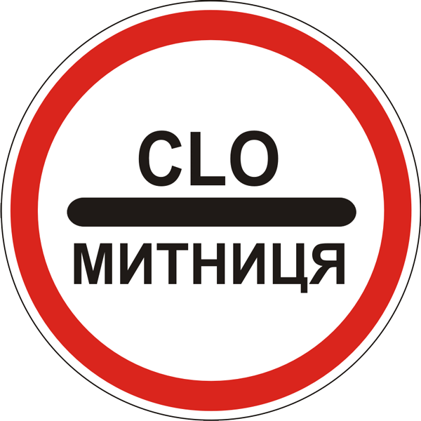 Customs.